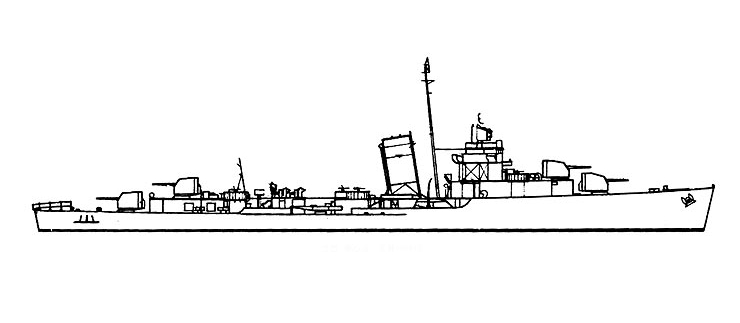 Recognition drawing for the U.S. Navy Benham-class destroyer USS Trippe (DD-403). This shows the ship ca. 1942 after the number of torpedo tubes had been halved, but before any 40 mm guns were added.